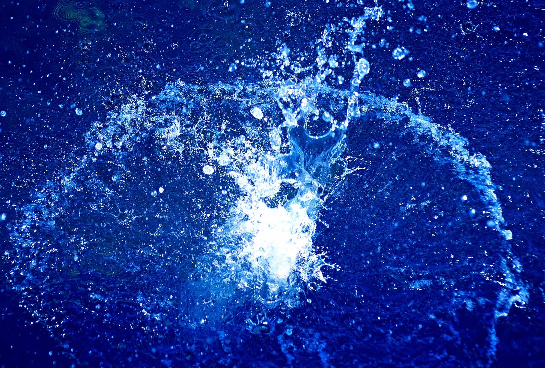 A splash after half a brick hits the water. The brick is visible in direction between 7 and 8 o'clock from the epicenter.